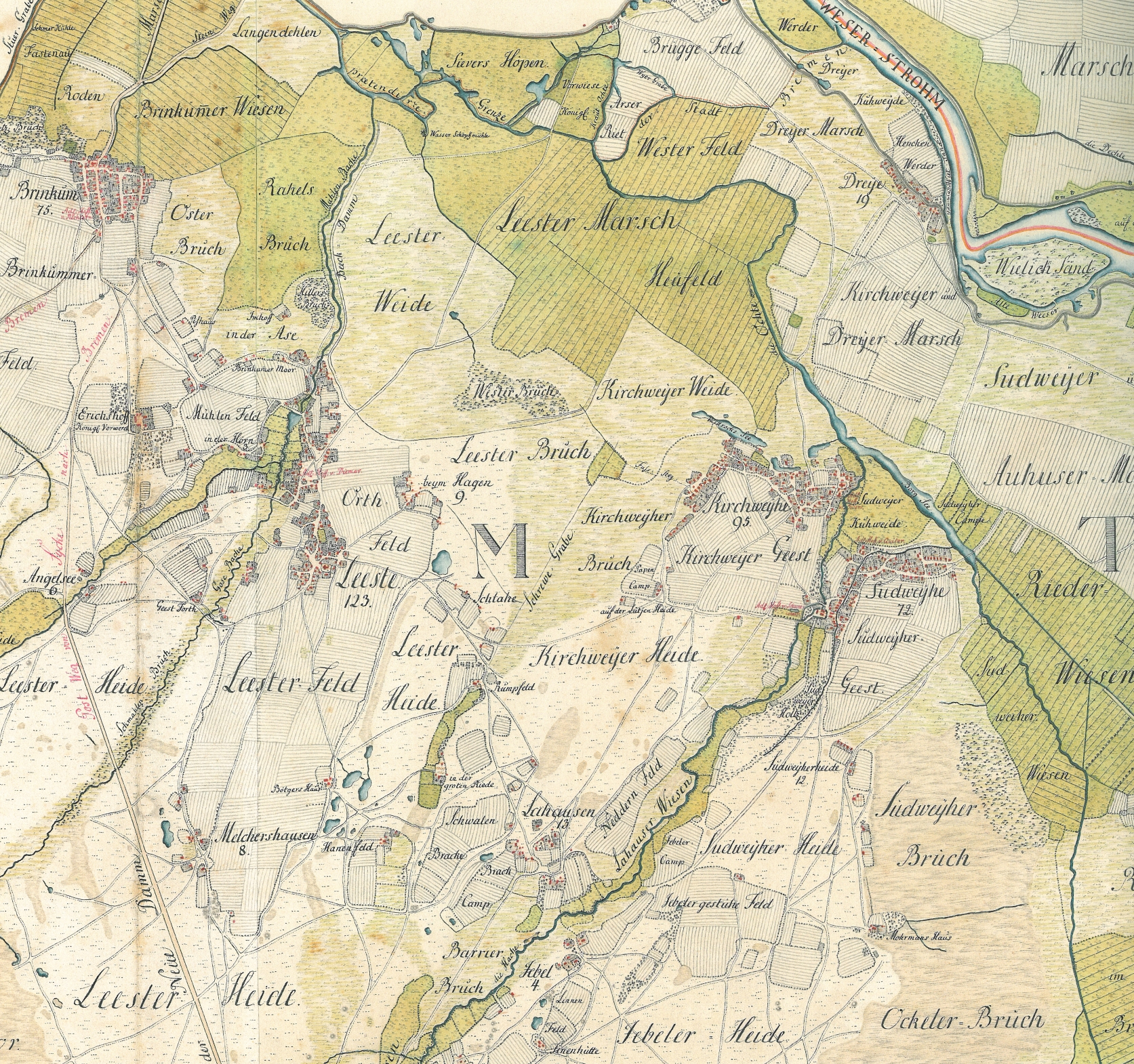 A map of the villages that are today part of the municipal Weyhe, Lower Saxony, Germany. Kurhannoversche Landesaufnahme, 1773.